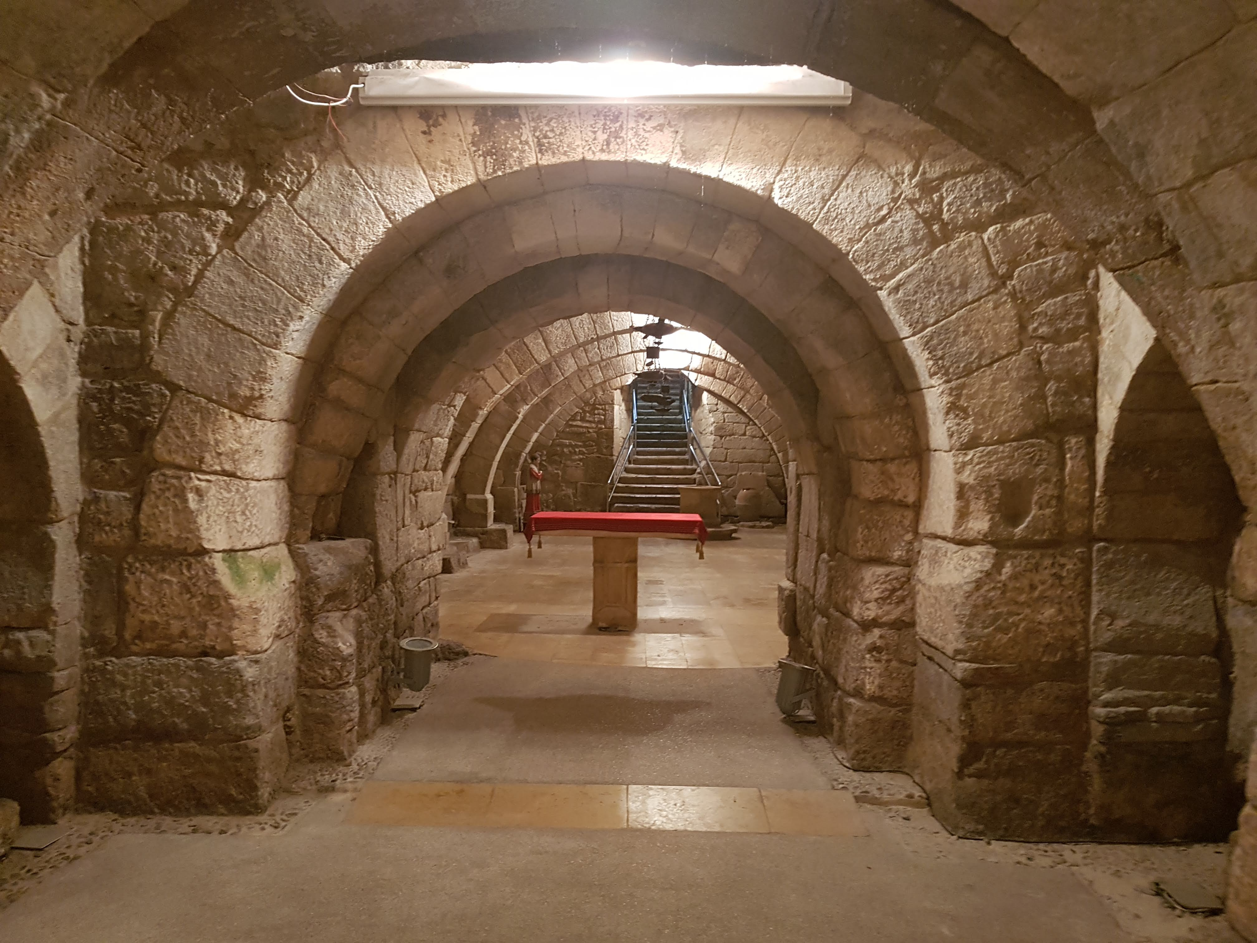 Crypt of San Antolín, Cathedral_of_Saint Antoninus (Palencia, Castile and Leon).